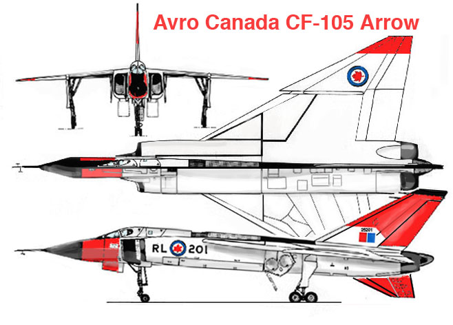 Avro CF-105 Arrow, 3-view